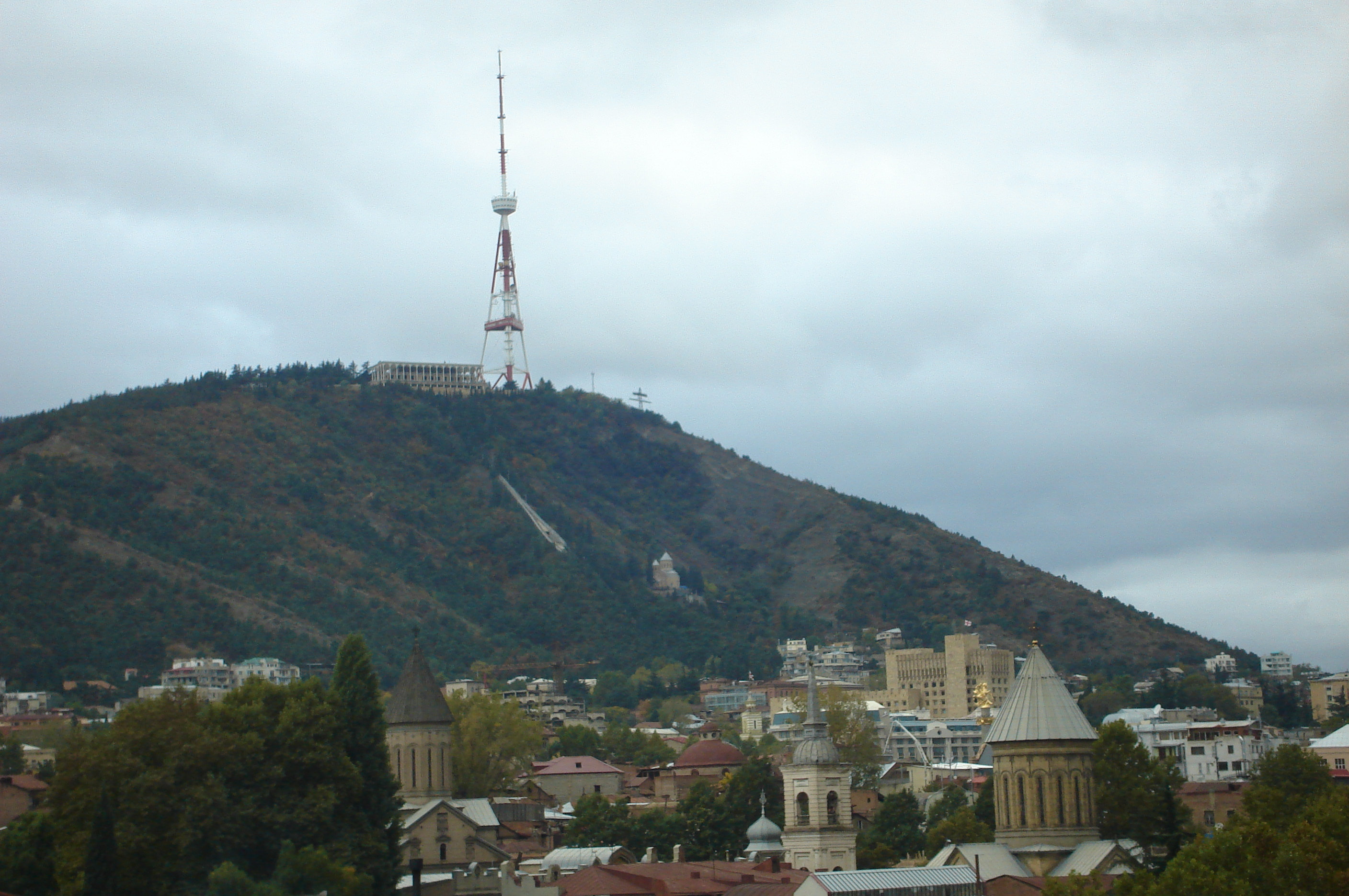 Mt Mtats'minda, Tbilisi, Georgia (view from Metekhi cliff)